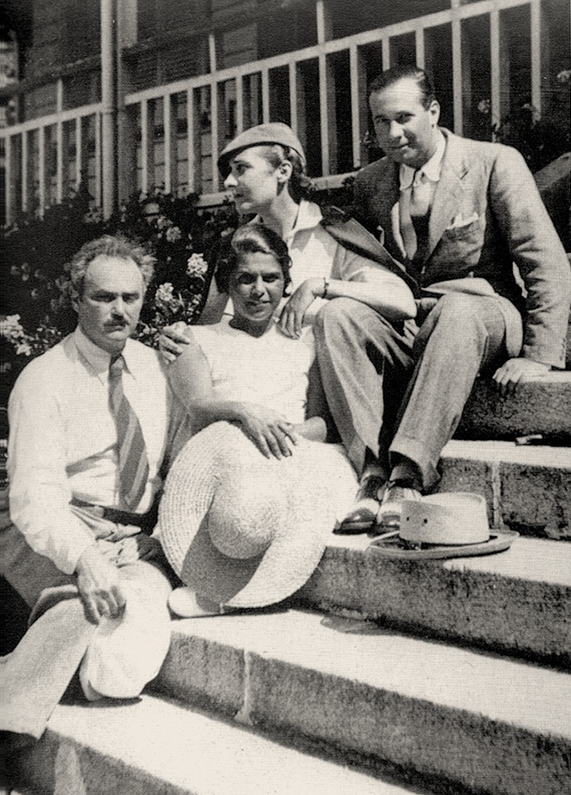 Eduardo Mallea (right) and editorial staff of "Sur"